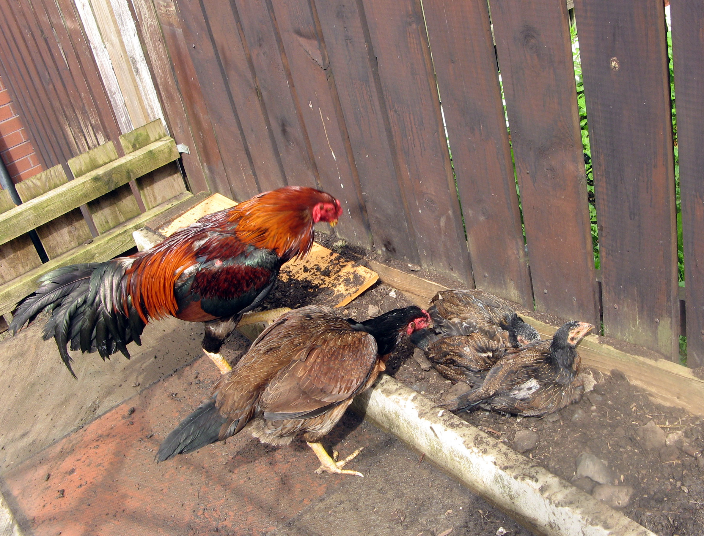 Kulang Asil rooster and Kulang Asil hen